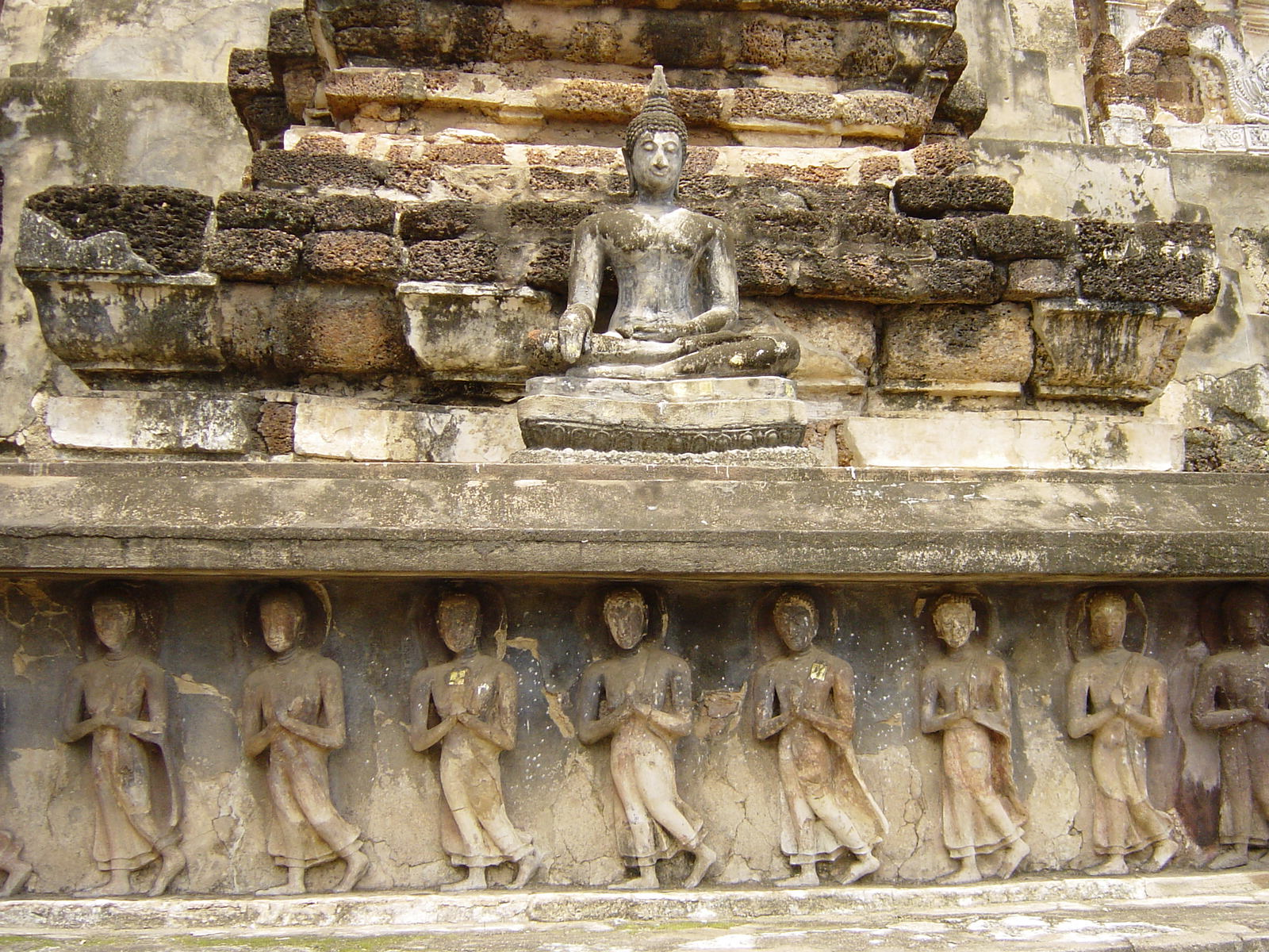 a number of Buddhist disciples in adoration, pedestal of main "Lotus-Bud"-Chedi, Wat Mahathat, Sukhothai Historical Park, Thailand